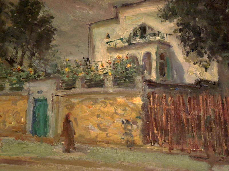 Efraim and Menasze Seidenbeutel - Villa in the Garden 1934, oil and plywood